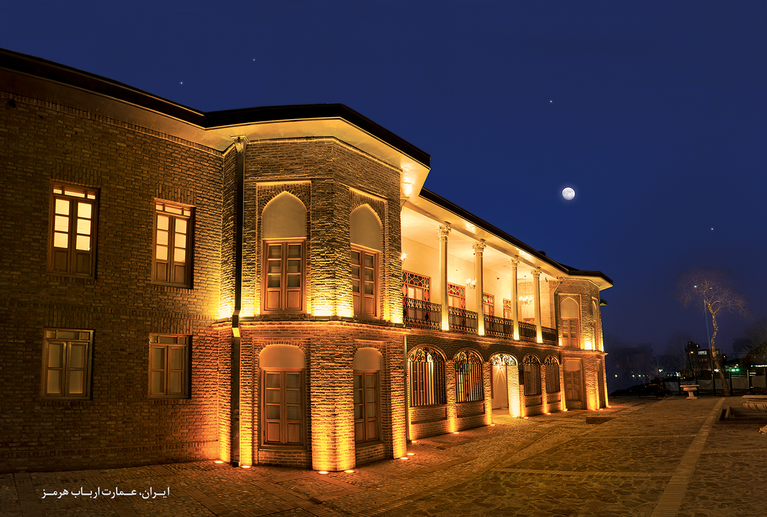 Arbab Hormuz Mansion